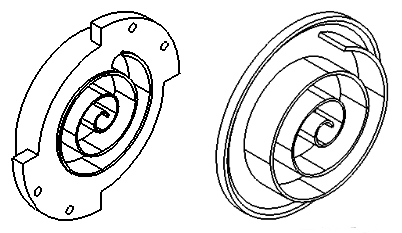 Scrolls of a scroll-compressor